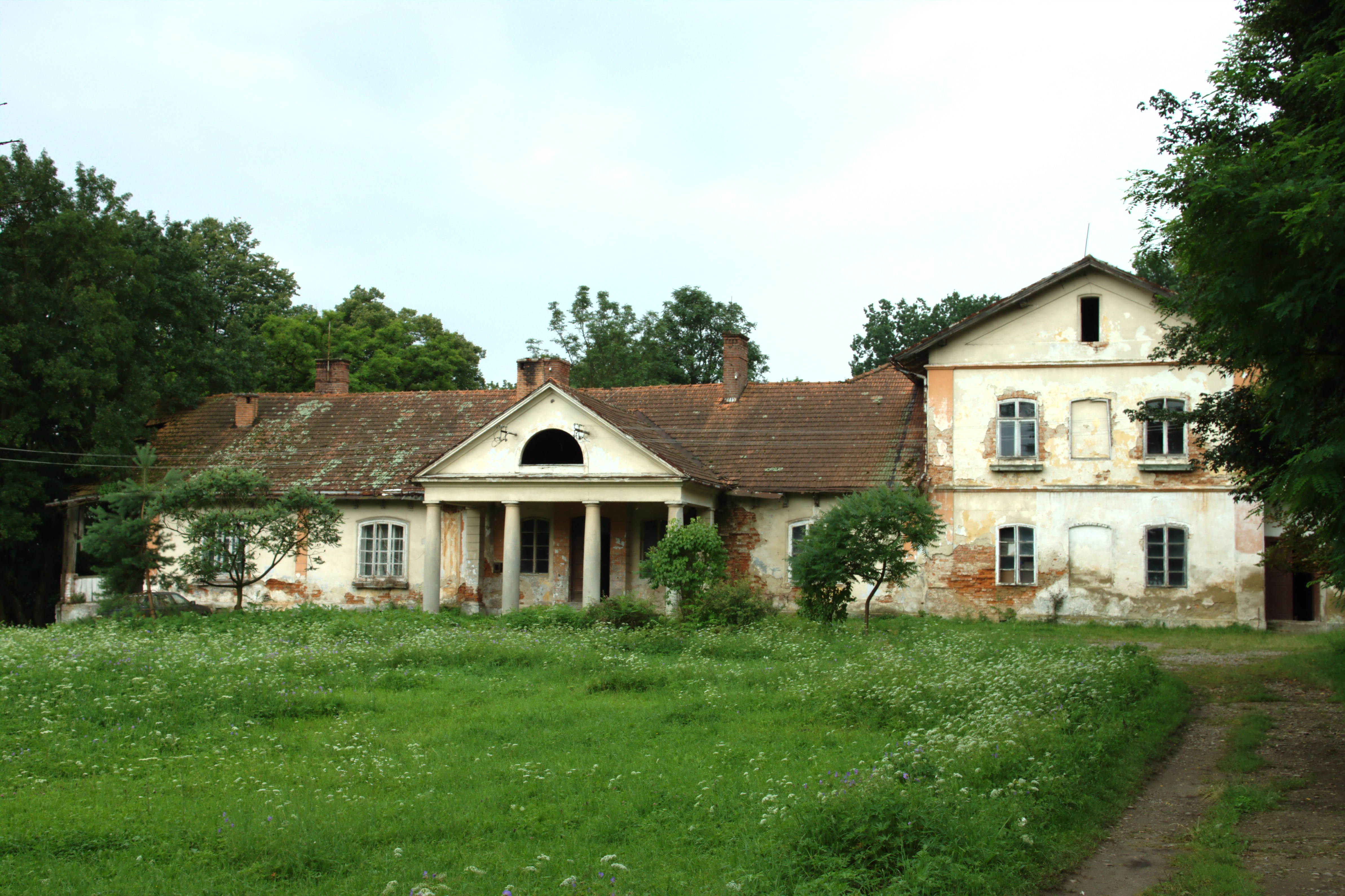 Abandoned mansion in Jurowce, Podkarpackie voivodeship, PL